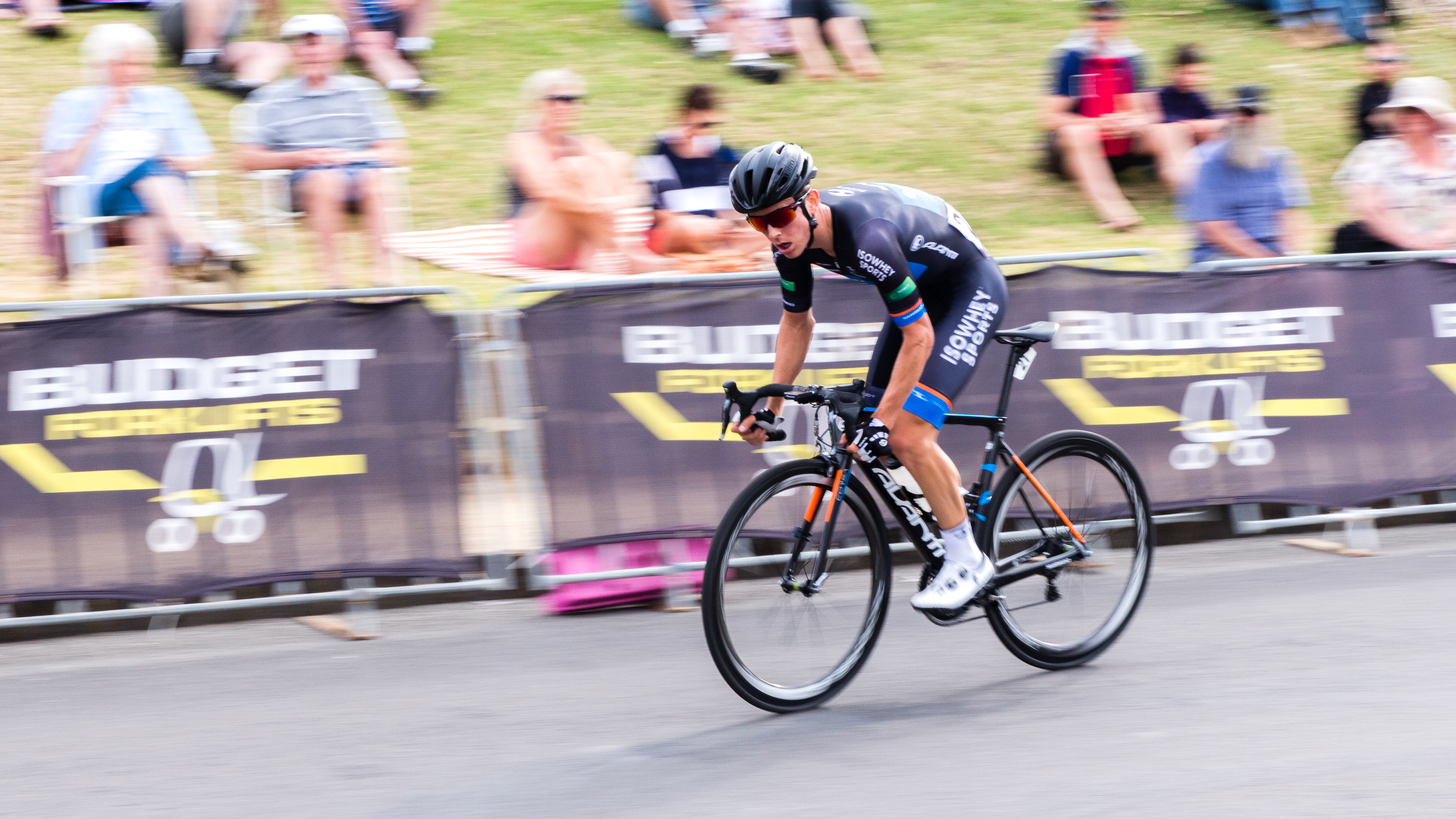 2016 Bay Crits